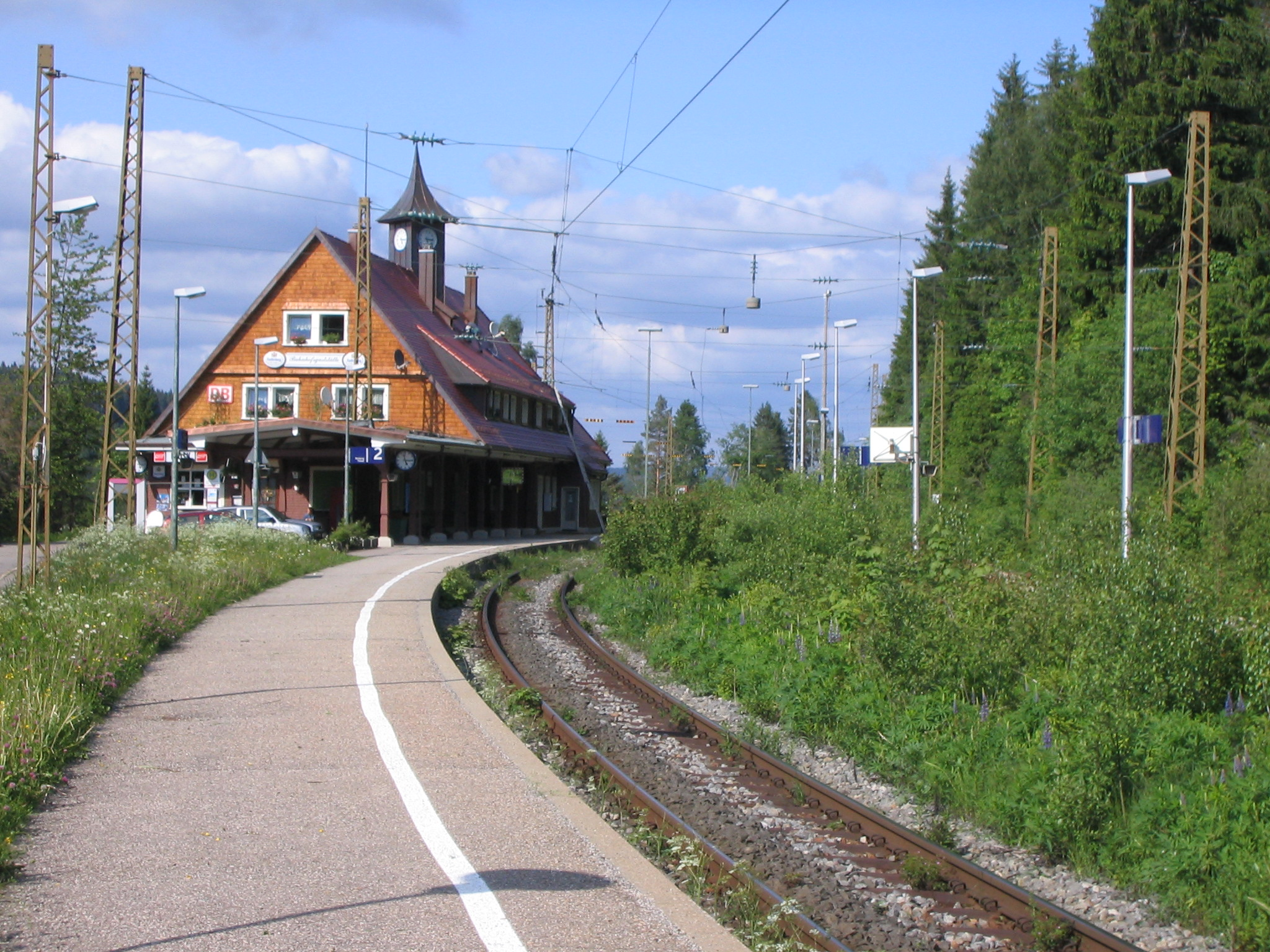 Train station of Bärental, Germany